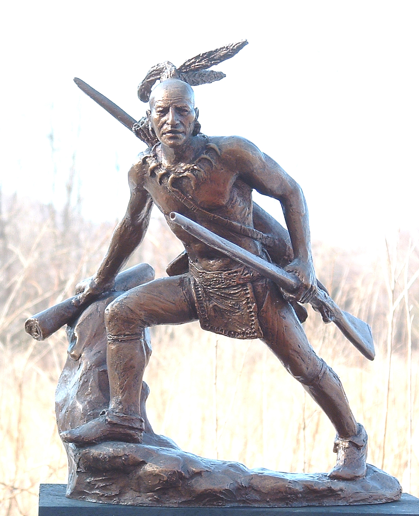 10" bronze sculpture of a Native American chieftain in traditional dress